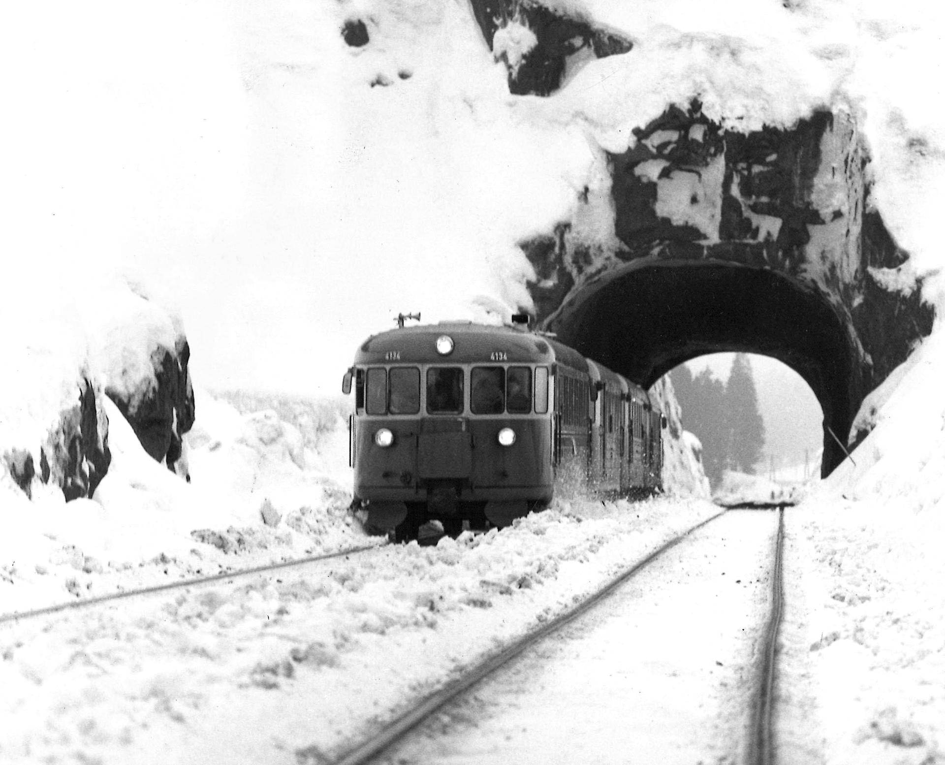 Photograph of the first regular personal train going through the railway tunnel close to Espoo railway station.